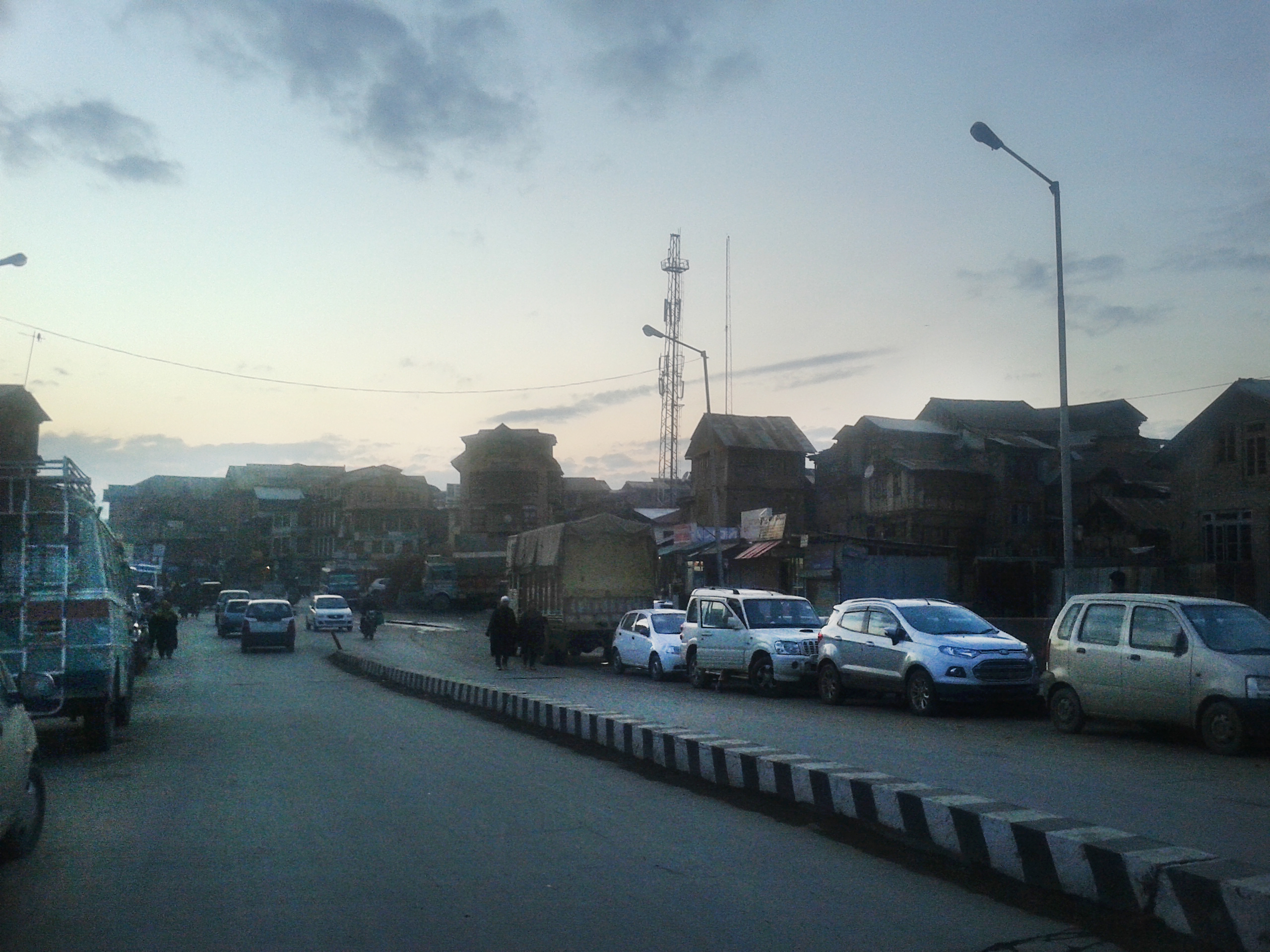 Downtown (Zaina Kadal)